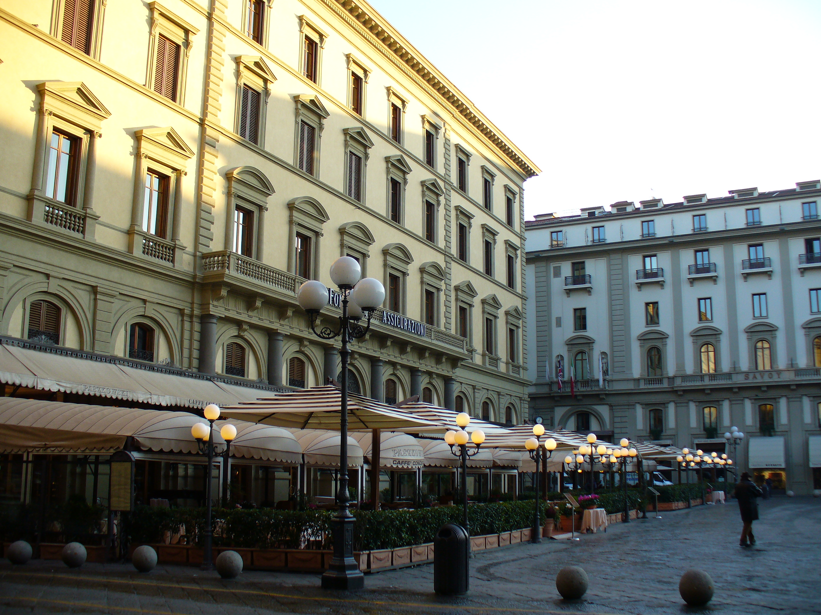 Piazza della Repubblica in Florence